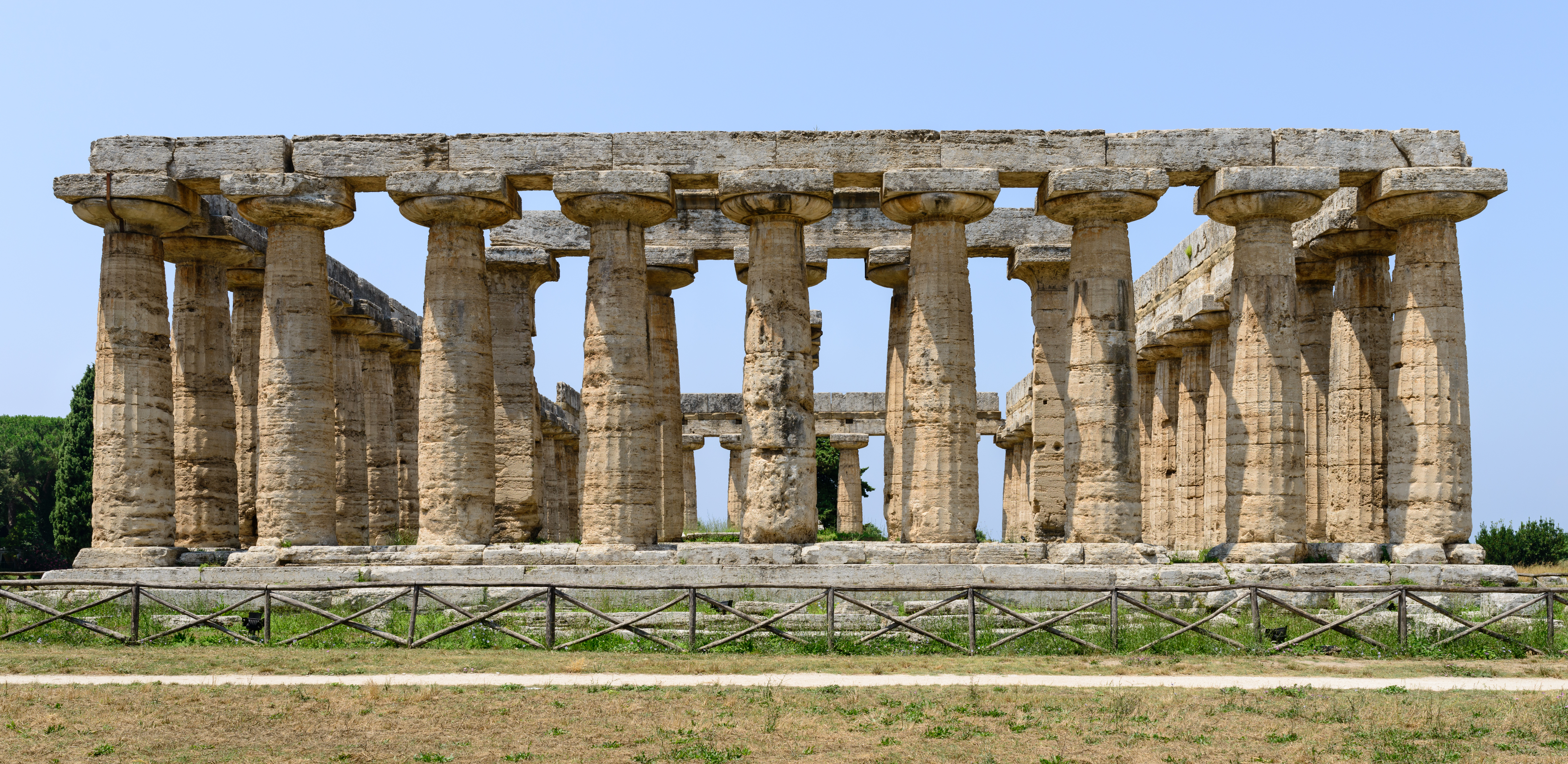 Temple of Hera (Hera temple I), Paestum (Poseidonia), Campania, Italy.